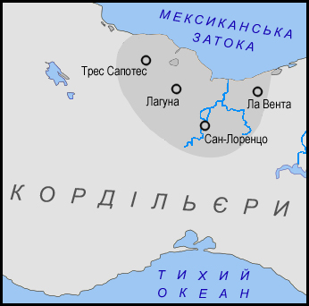 Olmec Heartland Map (ukrainian)